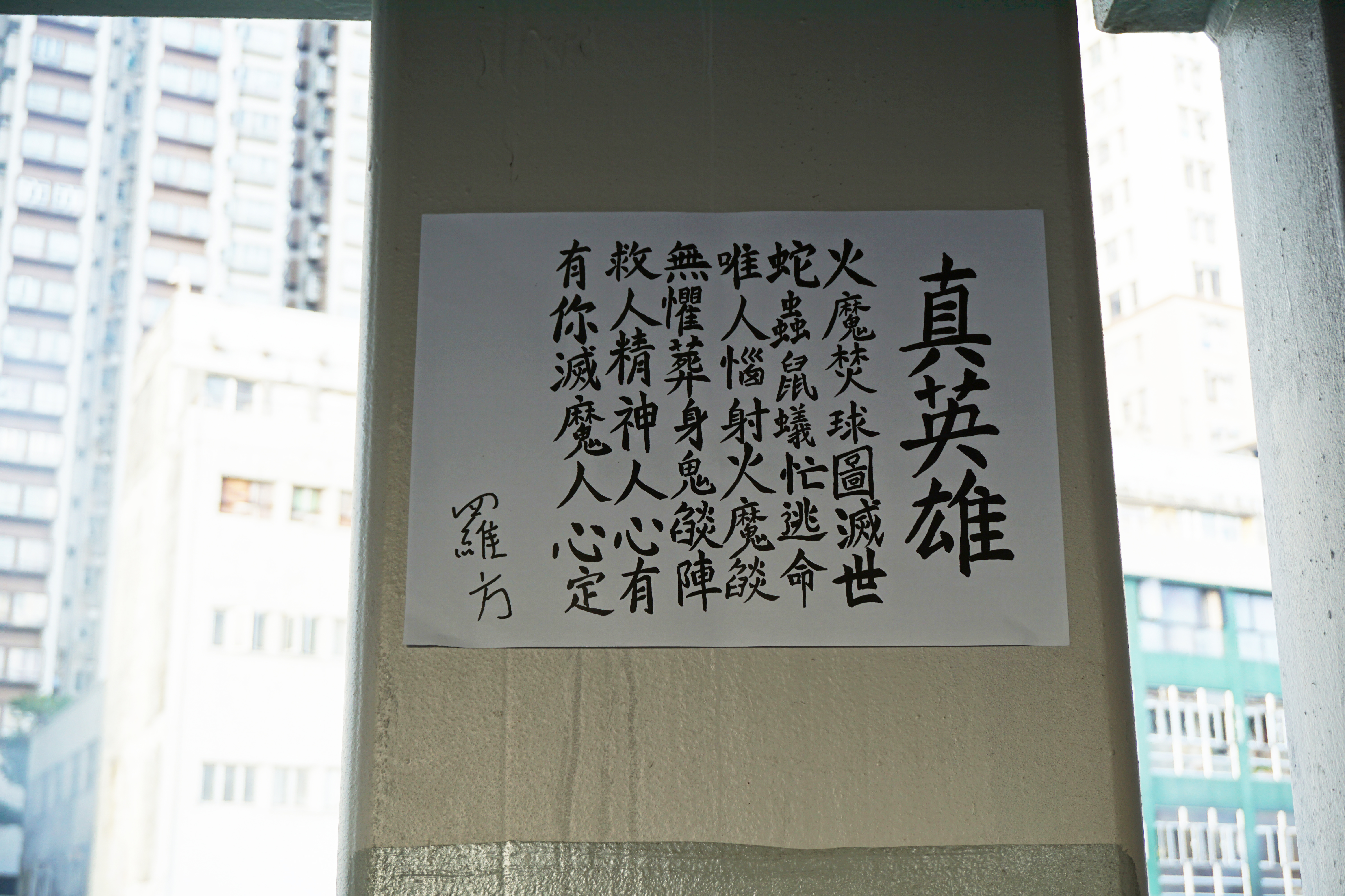 Amoycan Industrial Centre in Kowloon Bay, Hong Kong.